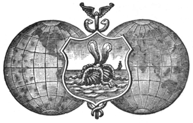 The logo of the F. A. Davis Company taken from an 1892 copy of Psycopathia Sexualis published by that company.